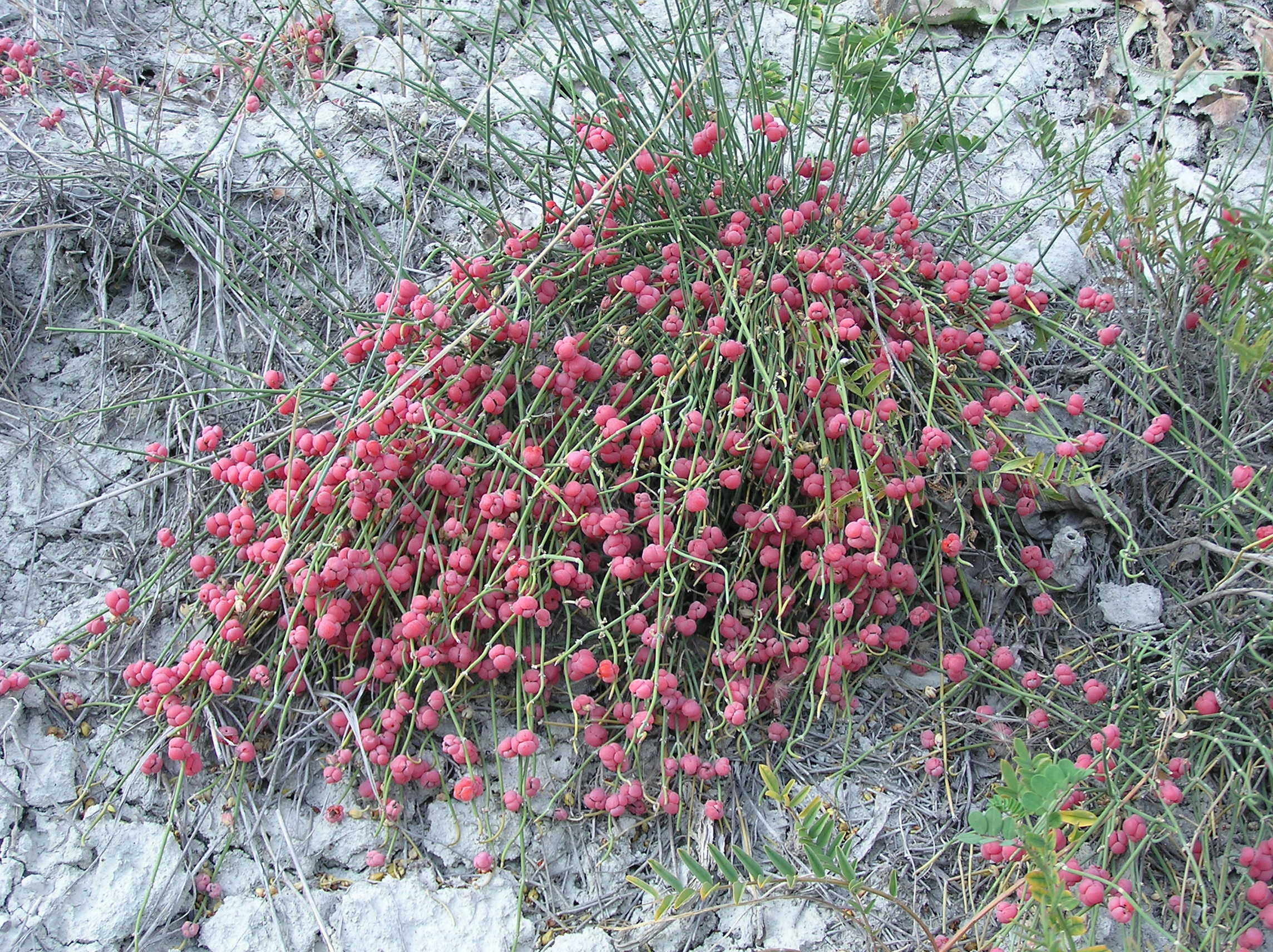 Ephedra distachya subsp. monostachya (L.) Riedl., female plant with ripe cones. Habitat: chalk exposure. Vicinity of Saratov city, Russia.